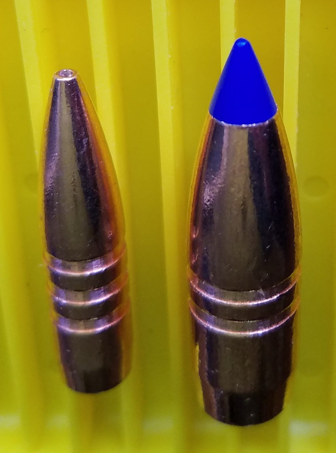 Lead-free solid copper bullets. The hollow point bullet on the left is .25 caliber (6.4 mm) and the polymer tip bullet on the right is .35 caliber (9 mm).